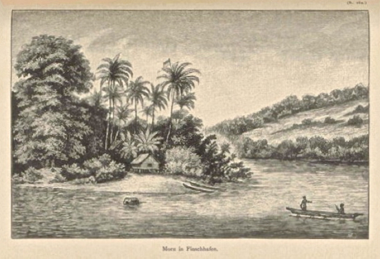 Moru in Finschhafen 1994-1885 - Papua New Guinea. Tropical scene with building, trees, water and people in a canoe. (Accessed via the World Digital Library)